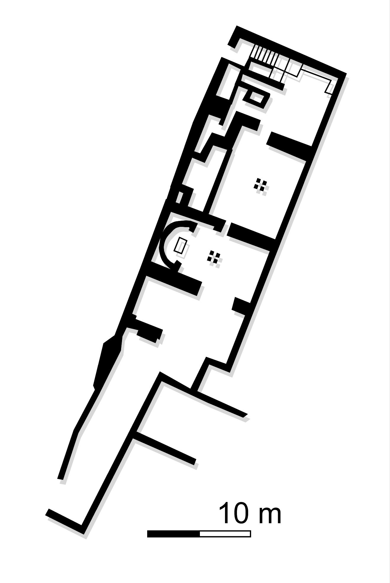 Plan of the Roman bath at Solunto (Soluntum), redrawn from Cutroni Tusa, Italia, Lima, Tusa, Solunto 1994, fig. on page 45